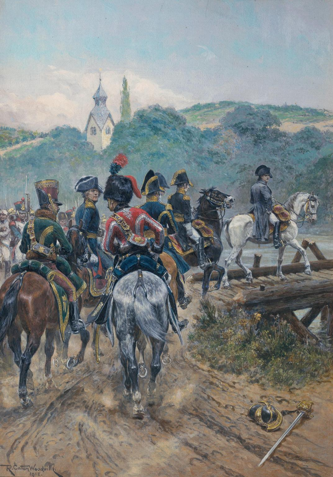 Napoleon Crossing the Bridge to Lobau Island 1912 Richard Caton Woodville 1856-1927